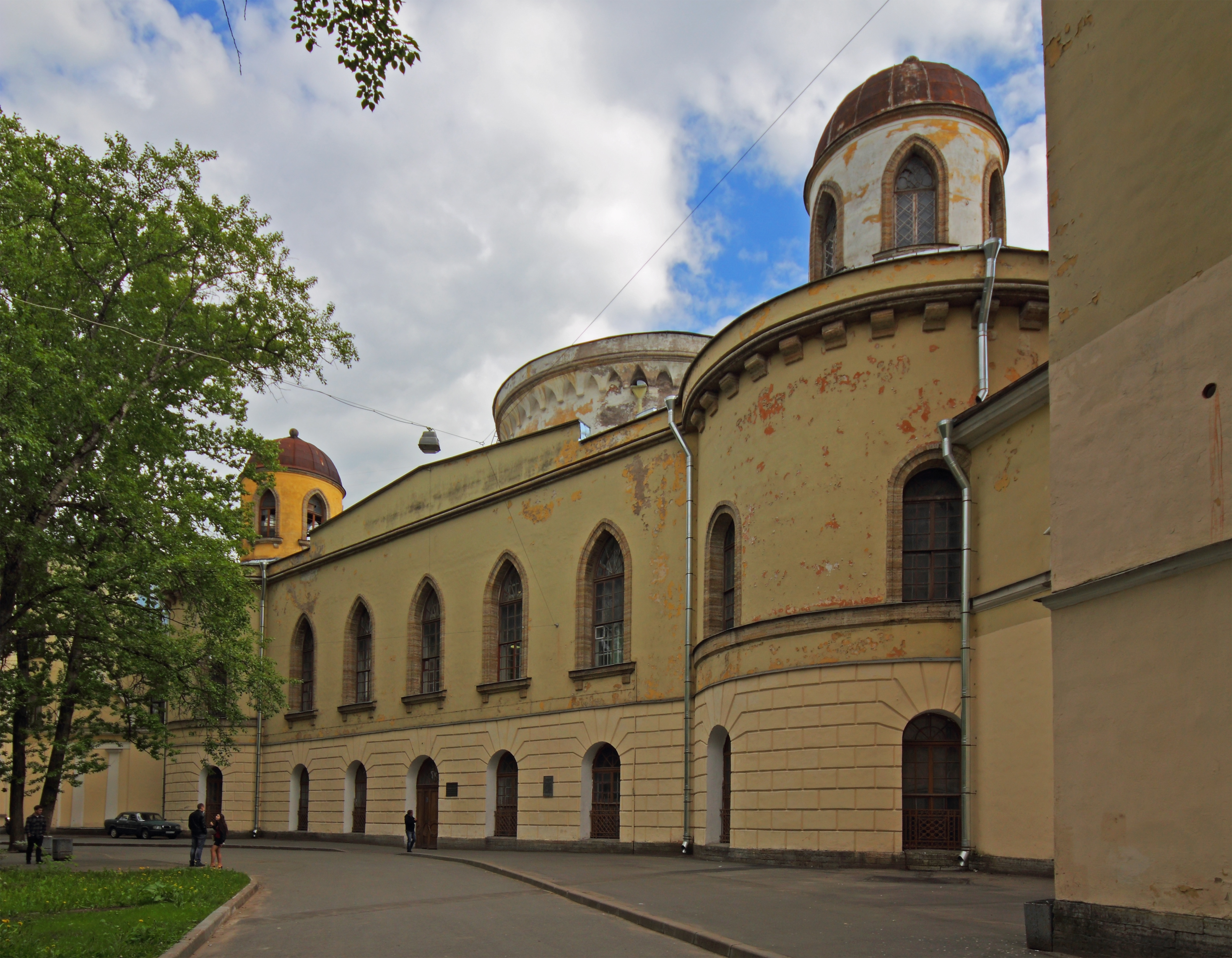 Saint Petersburg, Russia. Chesme Palace.